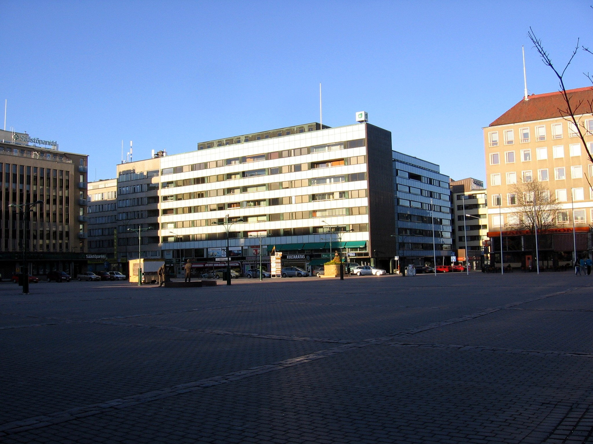 Pori Market Place